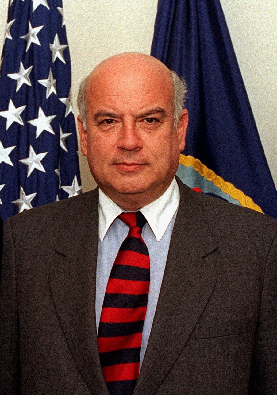 Jose Miguel Insulza, Minister of Foreign Relations of the Republic of Chile, in the Pentagon, posing for photographs prior to the meeting with Secretary of Defense William S. Cohen of United States of America (Cut of the original) in 1997.